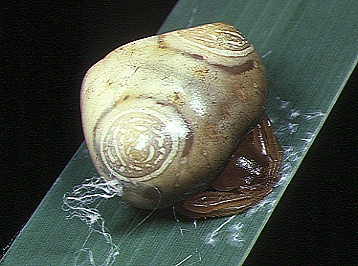 female Cyrtarachne inaequalis from Okinawa.